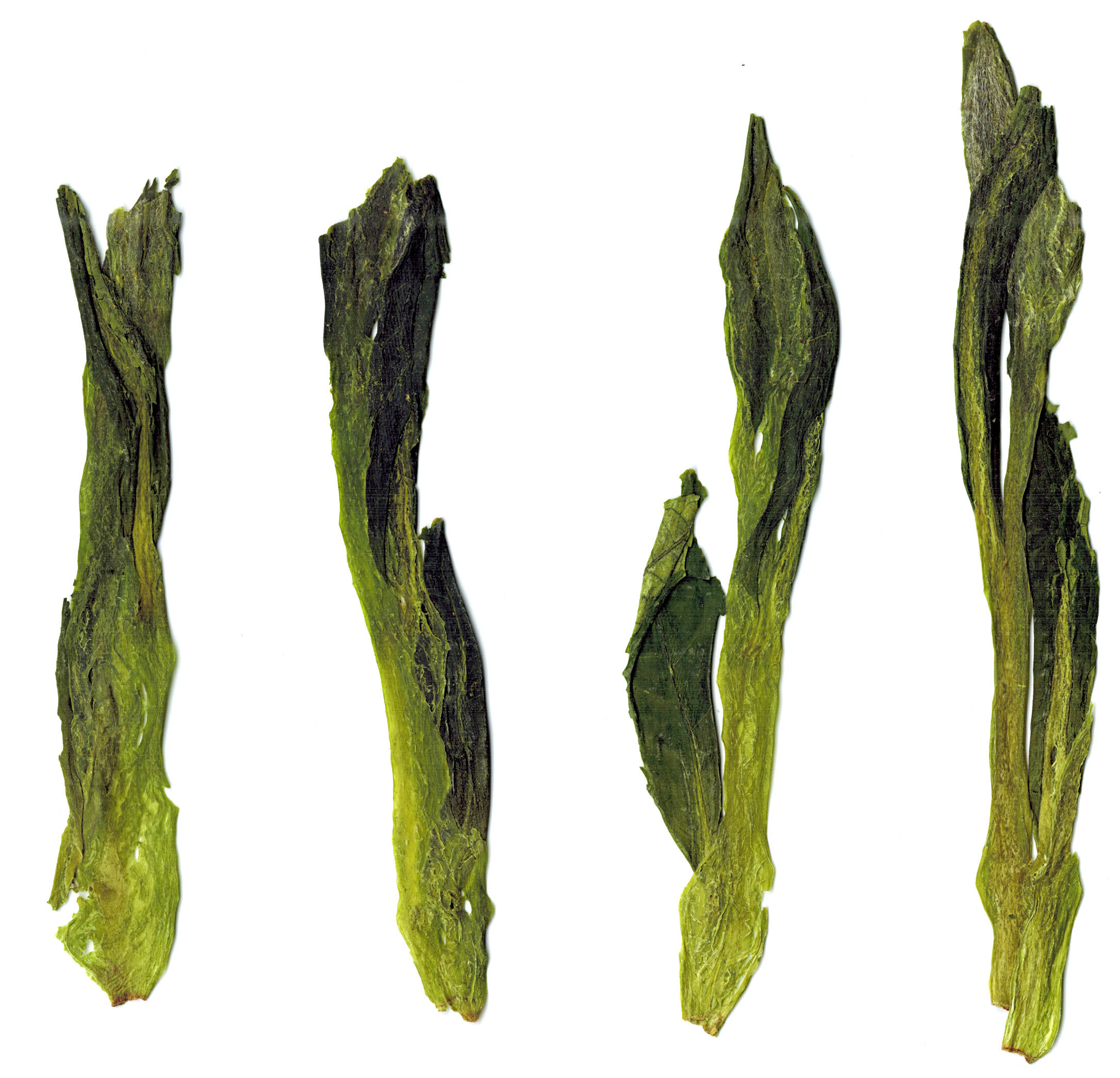 Fresh Hou Kui tea from china with two euro coin for size comparison